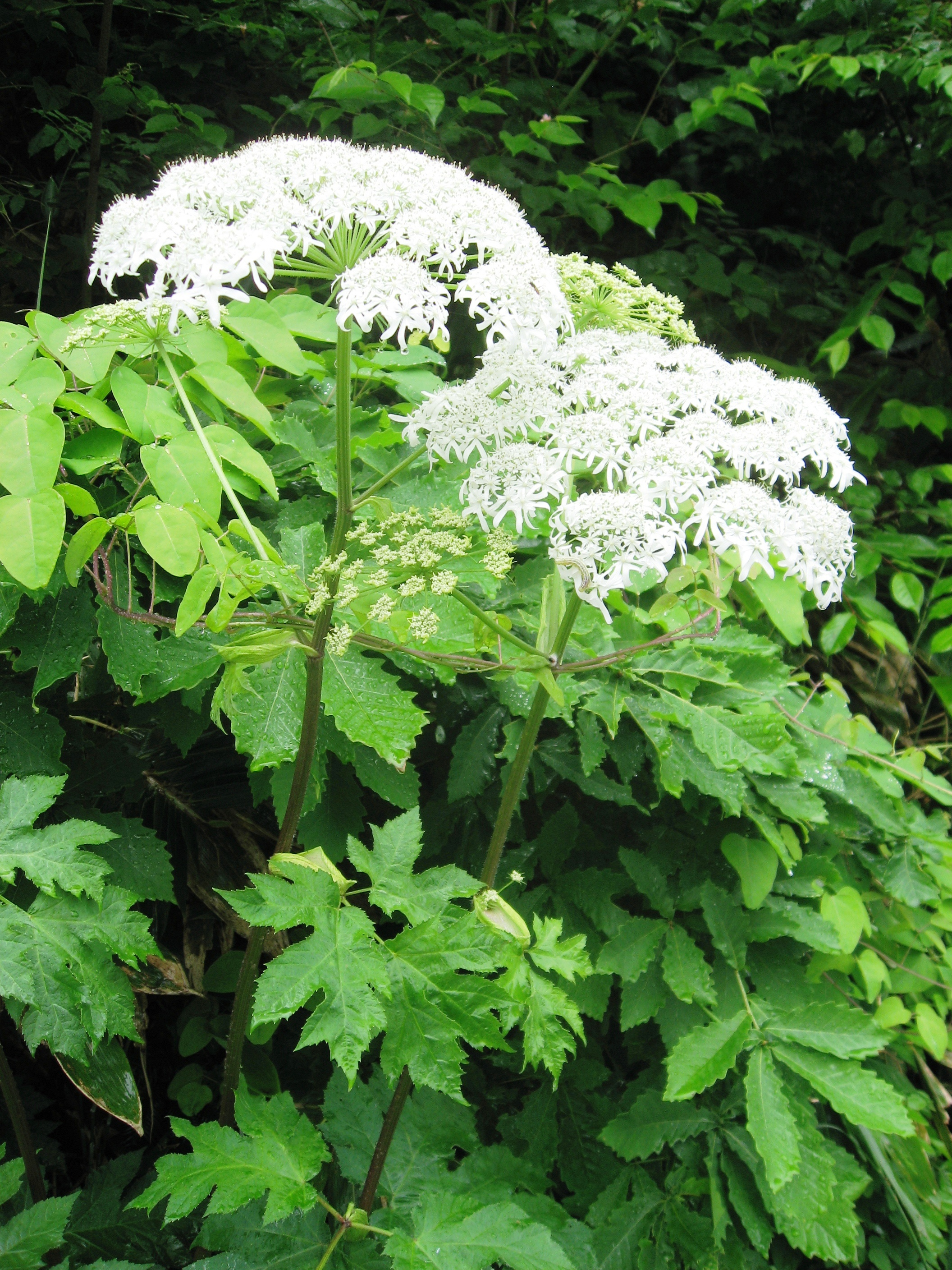 Heracleum lanatum, Aizu area, Fukushima pref., Japan